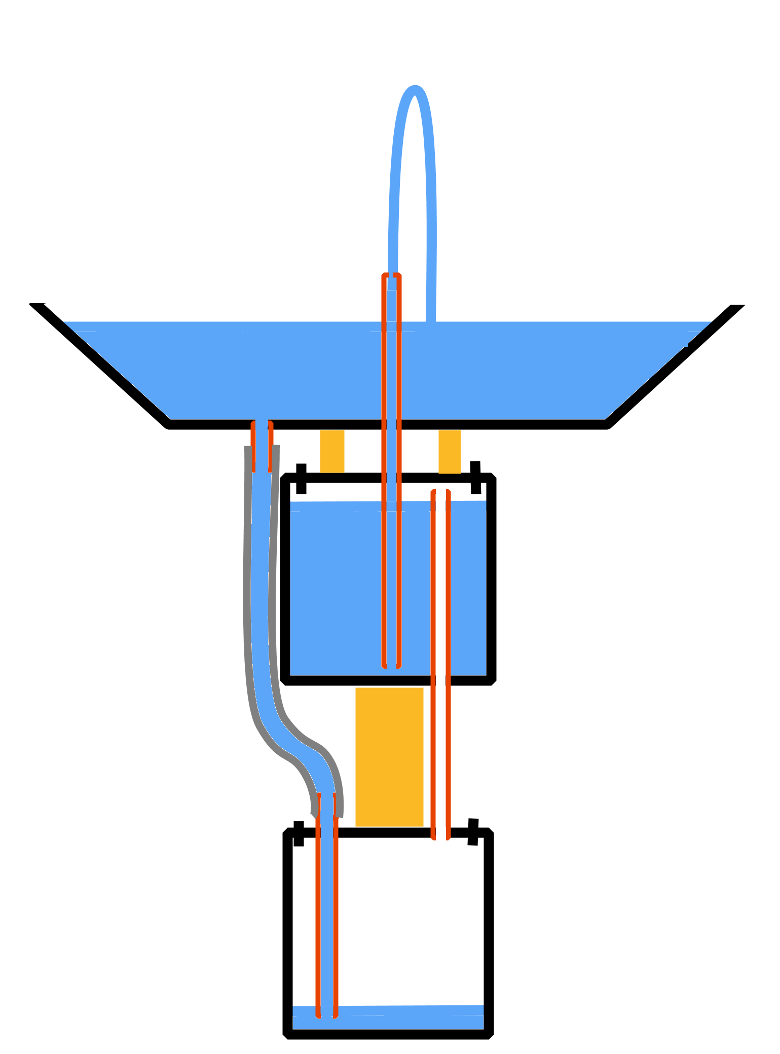 Cross-section of a practical version of Heron's fountain (Heron's siphon). Water flows from the basin to the lower container, which causes air pressure to the upper container to push water out the spout. The action is not paradoxical because the net flow of water, from the upper container to the lower one (by way of the basin) is downward.